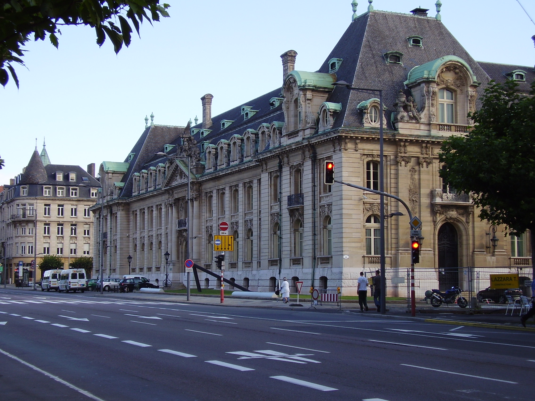 headquarder of ArcelorMittal in Luxemburg city